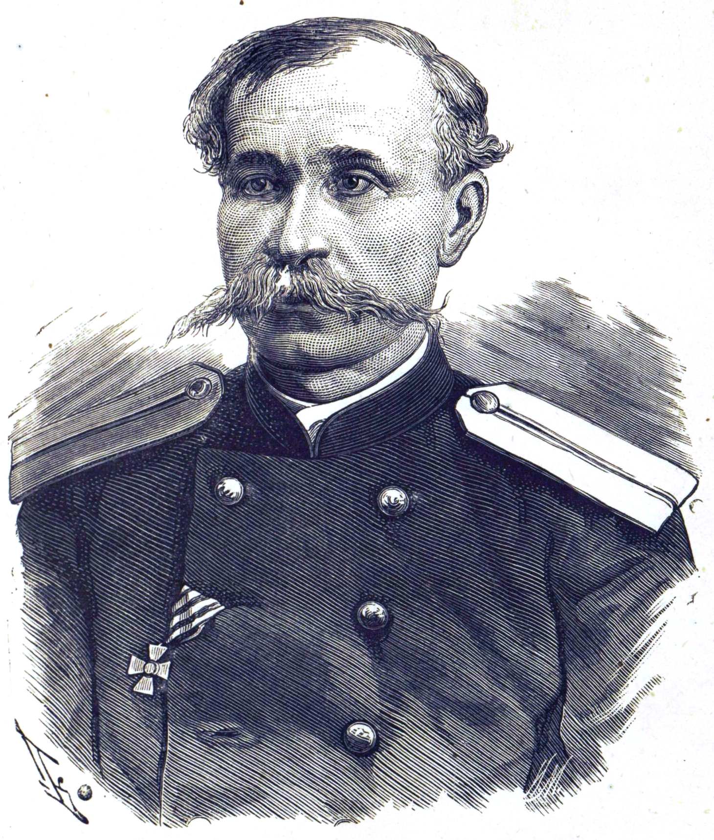 Shtokvich Fyedor Eduardovich